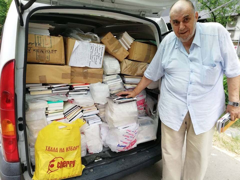 Srba Ignjatović donating books for his legacy in the Society for Culture, Art and International Cooperation Adligat in Belgrade, Serbia. Српски (ћирилица): Срба Игњатовић приликом поклањања књига за легат у Удружењу за културу, уметност и међународну сарадњу „Адлигат" у Београду.